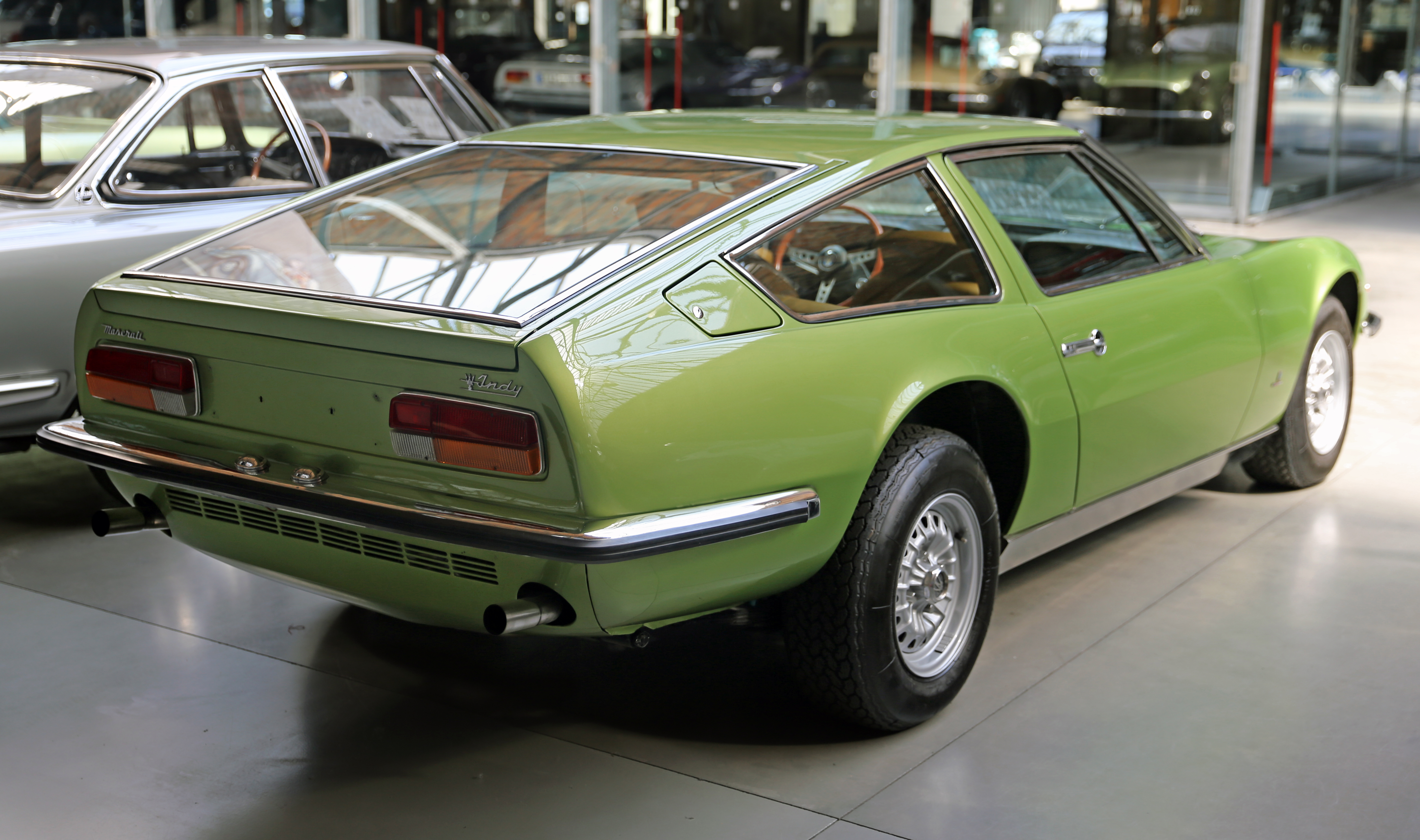 1970 Maserati Indy 4200 for sale from Thiesen, at Classic Remise Berlin. Only 436 were built, this is the only one in this color. Originally sold in Milan.